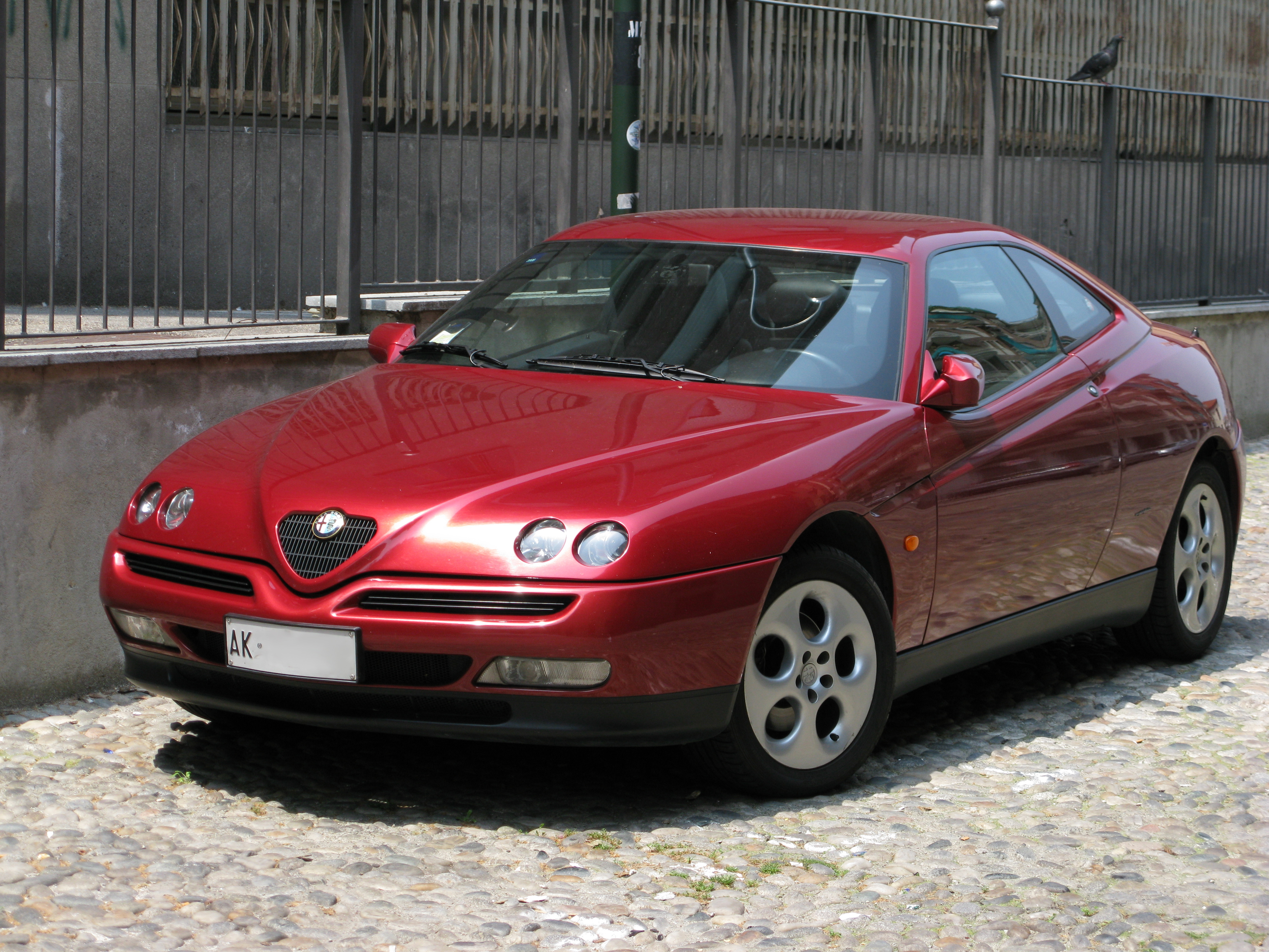 An Alfa Romeo Coupè Gtv, not the classic one but that of the Fiat era, with front traction (nice car anyway). This is a 1996 sample. Torino, 25.6.2008